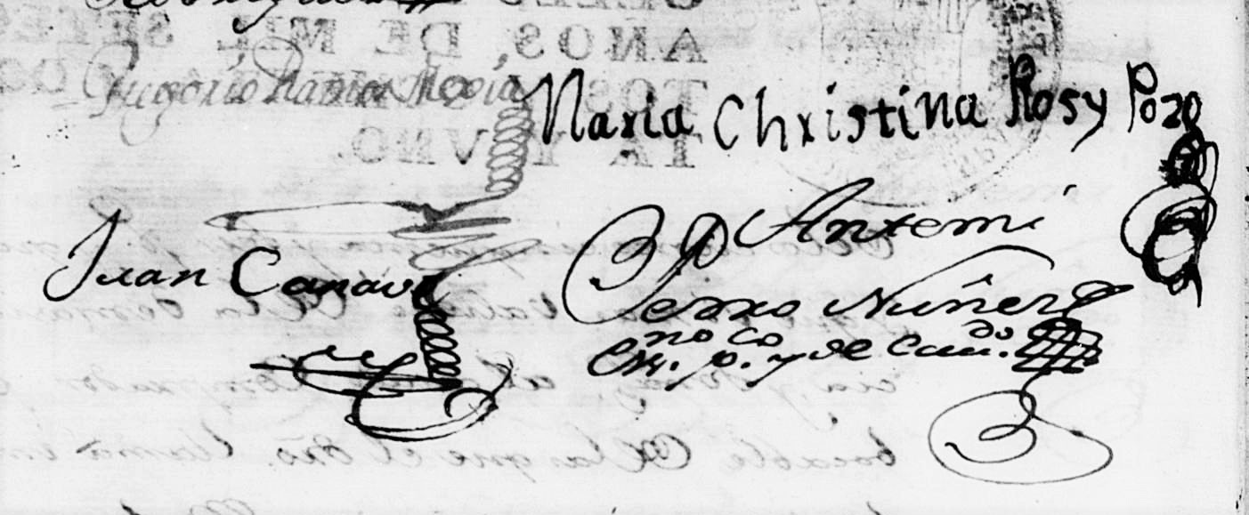 Signatures of Juan Canavé (Canaveris) (1748-1822) colonial official, and María Cristina Ross and Pozo Silva, patrician lady of Buenos Aires.